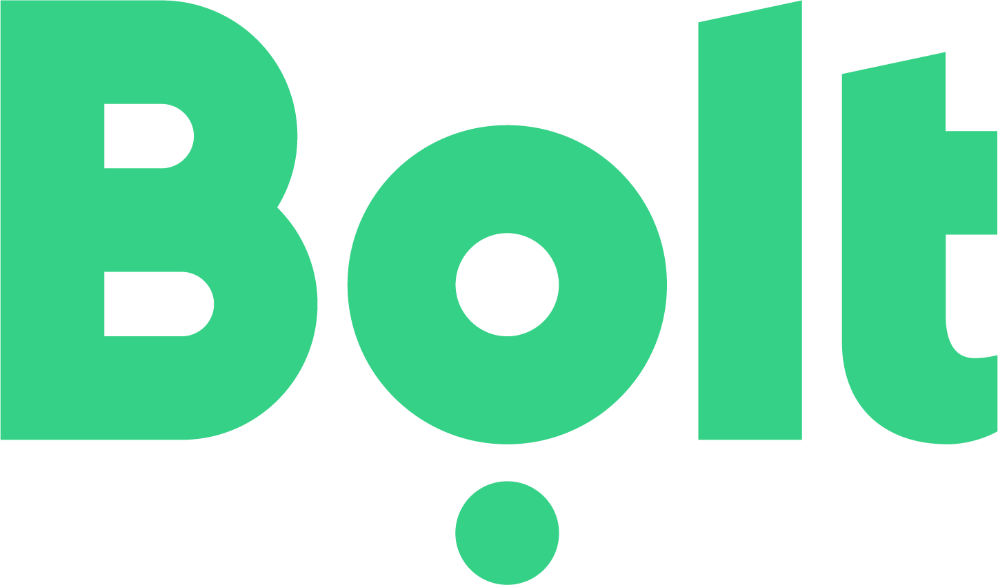 Logo of the company Bolt (formerly Taxify)